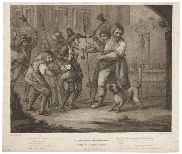 Dick the Butcher and Smith seize the Clark of Chatham in Henry VI, Part 2